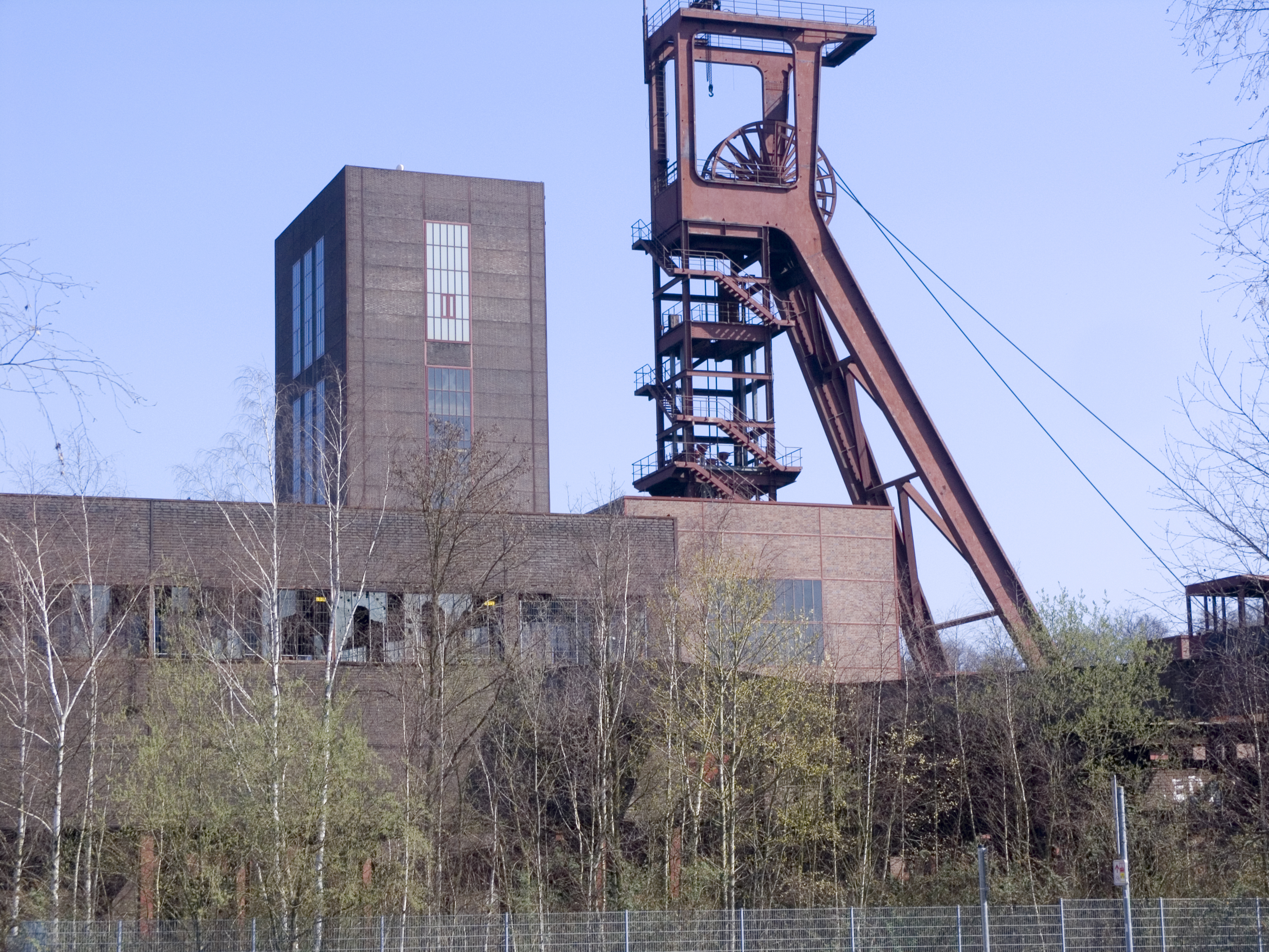 Zollverein coal mine, shaft no. 1/2/8.